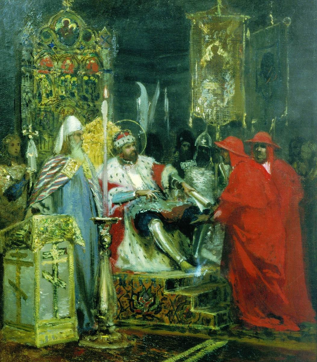 Sketch for the mural of the Cathedral of Christ the Savior in Moscow.